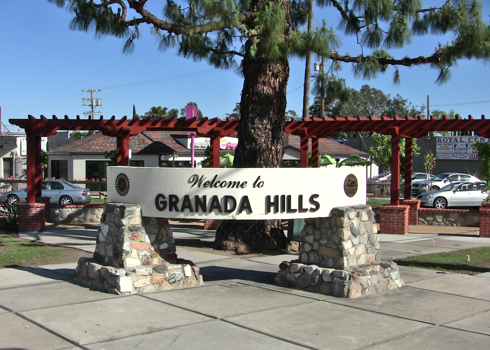 "Welcome to Granada Hills" monument in Veterans Triangle